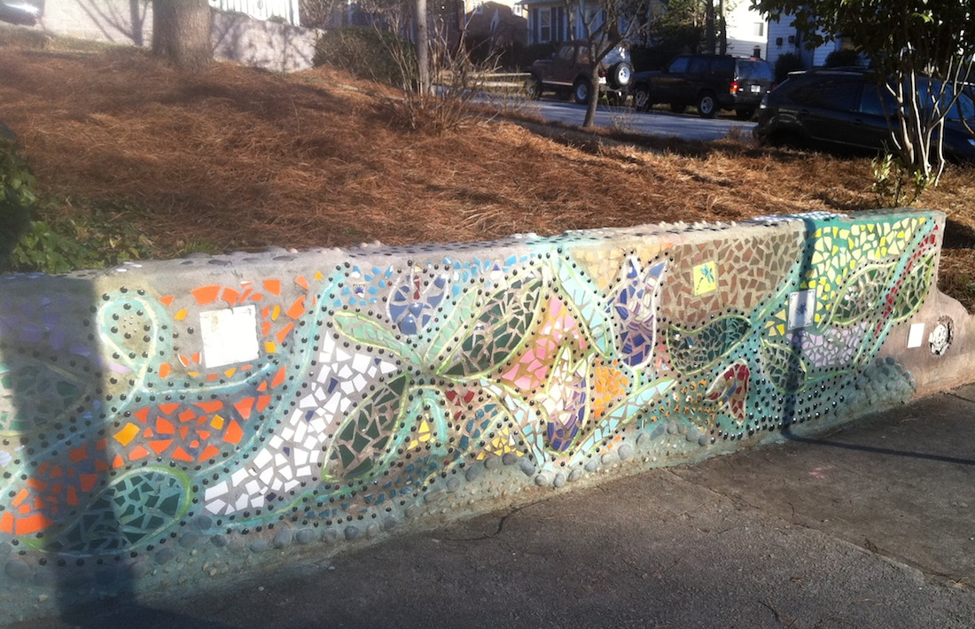 Symphony of Color mosaic (rightmost section) by Donna Pinter, Virginia Highland, Atlanta